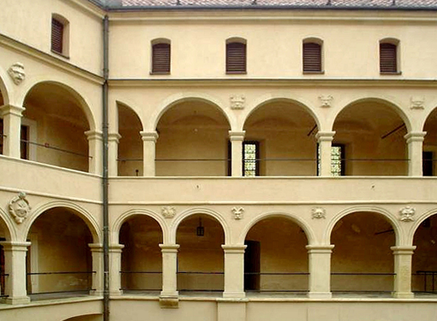 Pieskowa Skala - castle